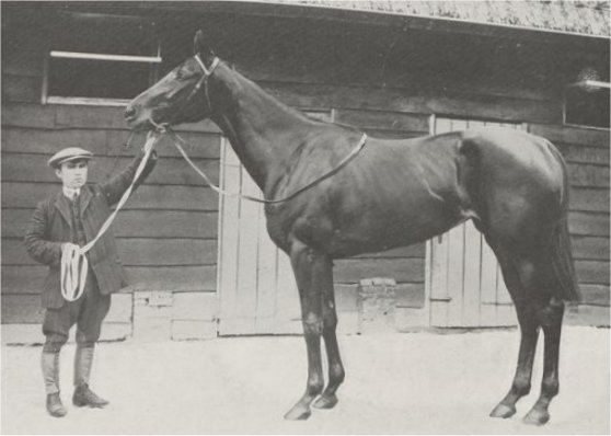 1911 1,000 Guineas Stakes winner, Atmah.